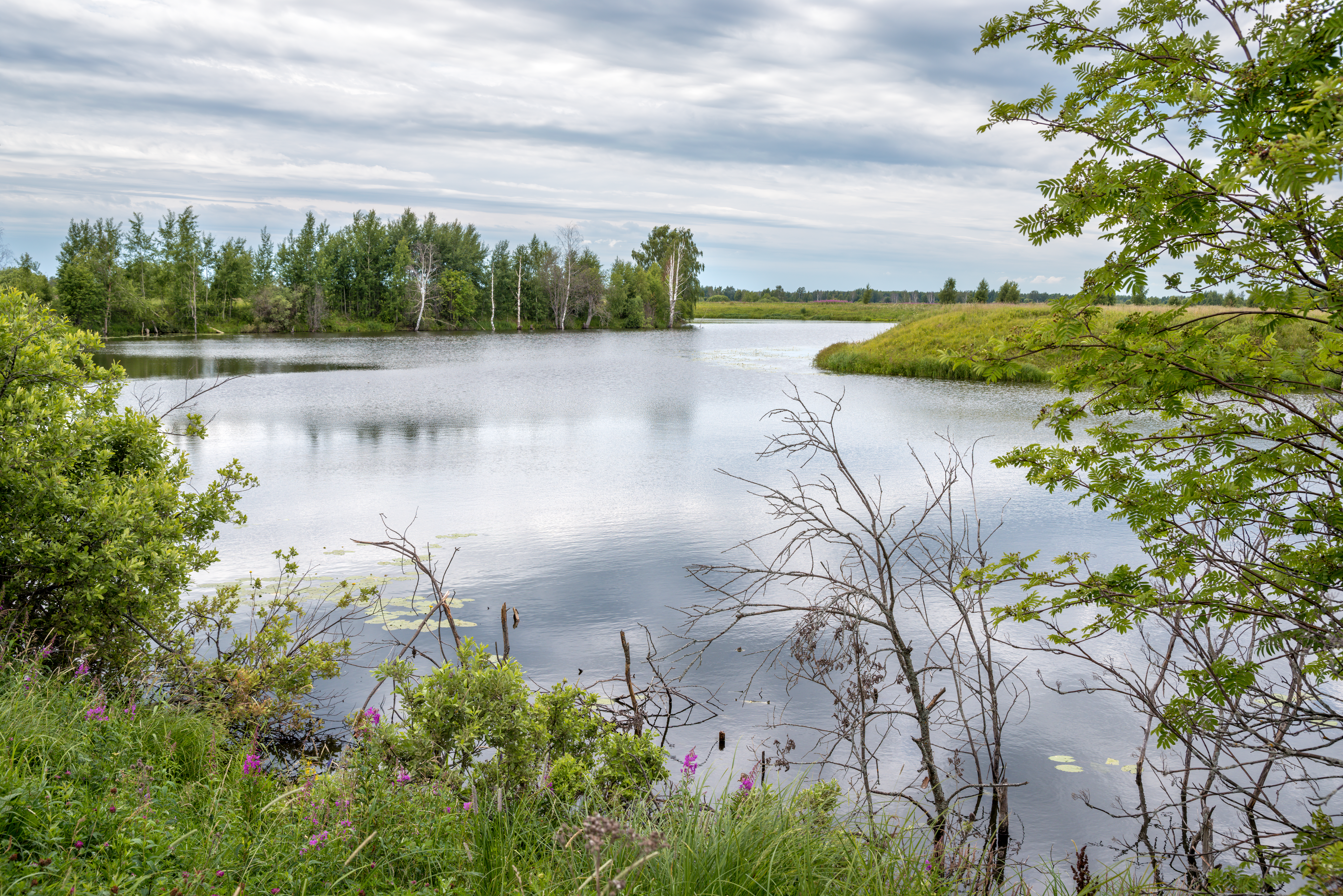 Kelnot river in Yaroslavl Region, Russian Federaton.